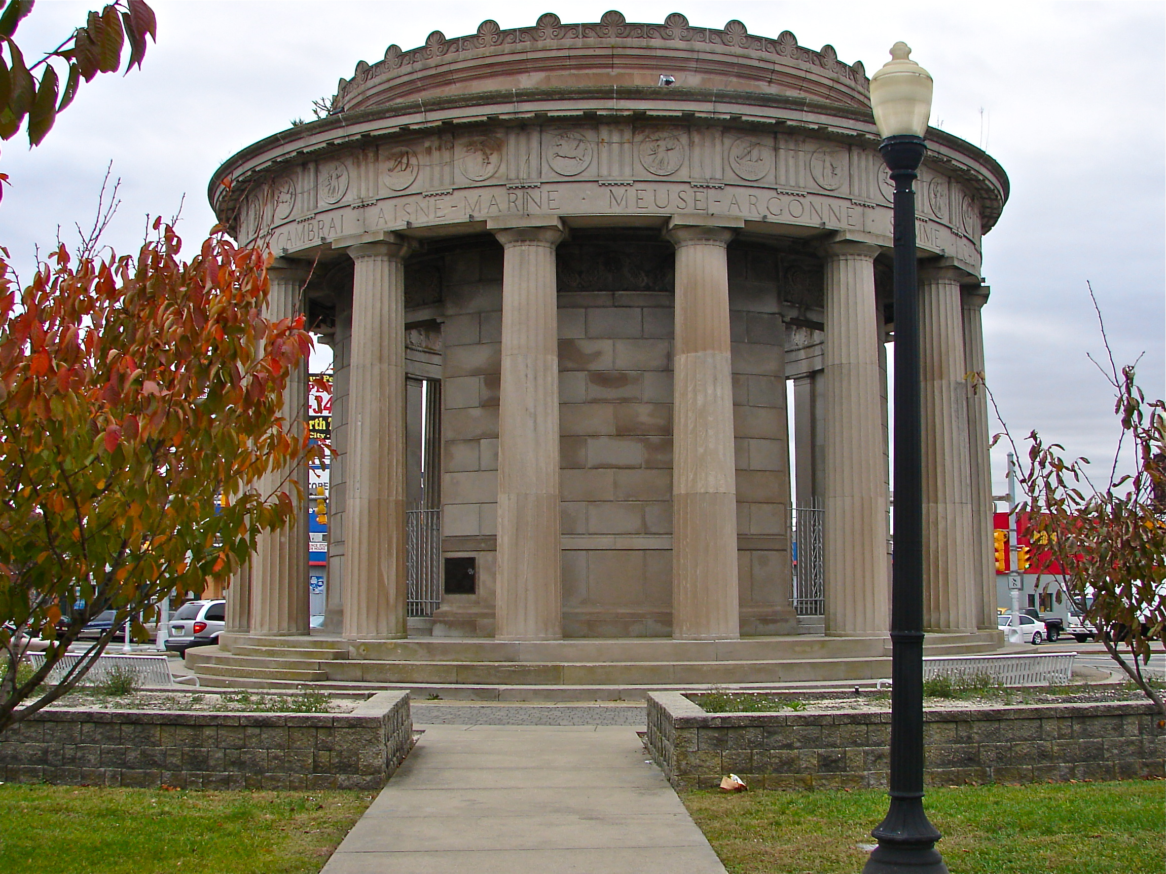 World War I Memorial, in Atlantic City, New Jersey, on the NRHP since August 28, 1981. At O'Donnell Pkwy., S. Albany and Ventnor Aves. right as you enter Atlantic City from the main bridge. Erected 1922, refurbished recently.